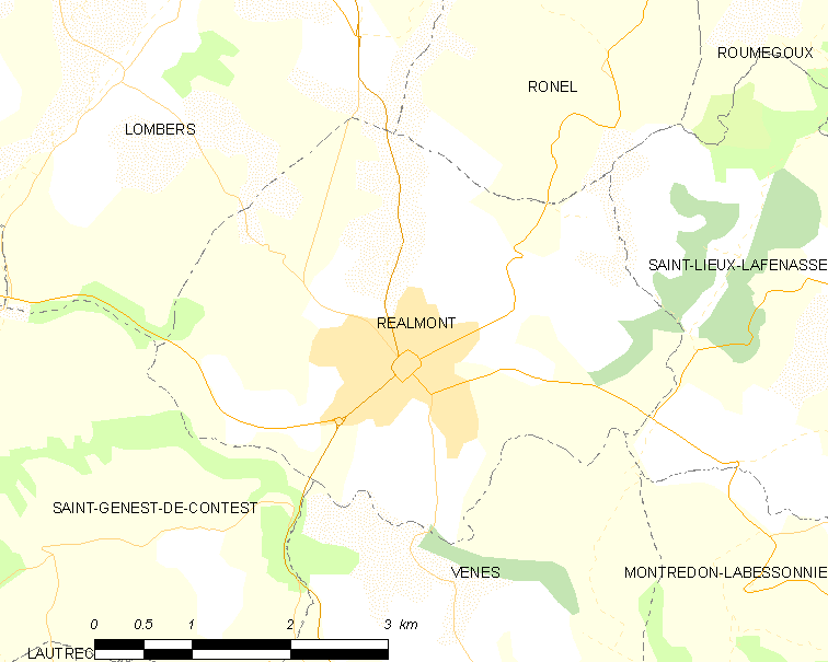 Map of French municipality Réalmont